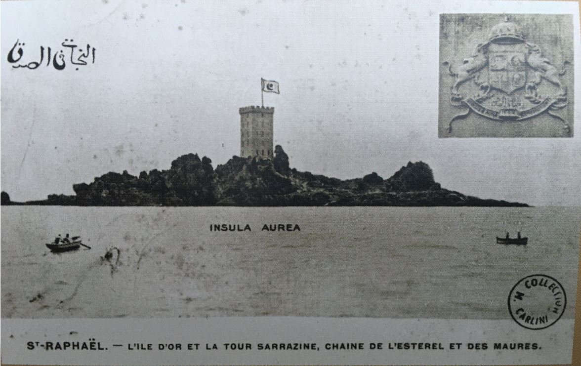 Front of a postcard with a photograph of the Île d’Or in the center with its flag tower.